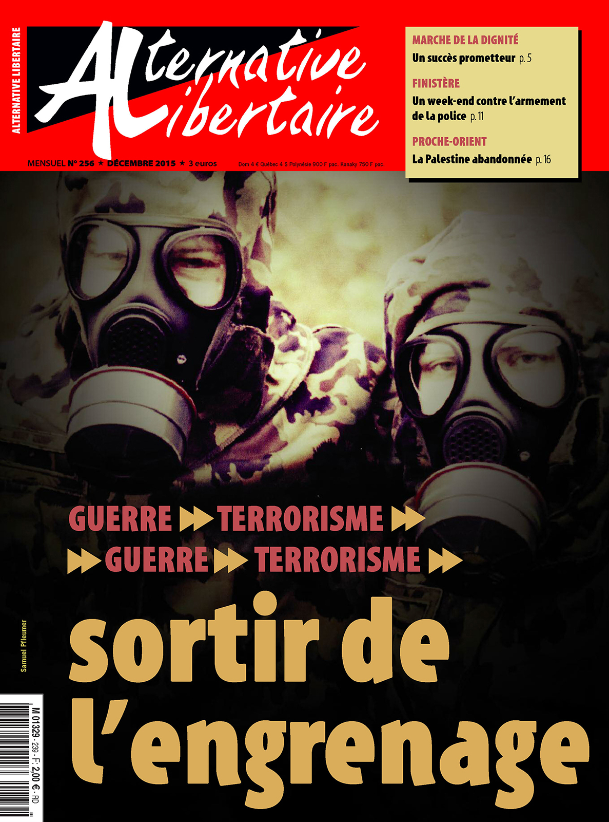 Alternative libertaire monthly #256, December 2015